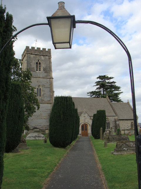 St Giles' parish church, Maisemore, Gloucestershire, seen from the south from the churchyard gateway